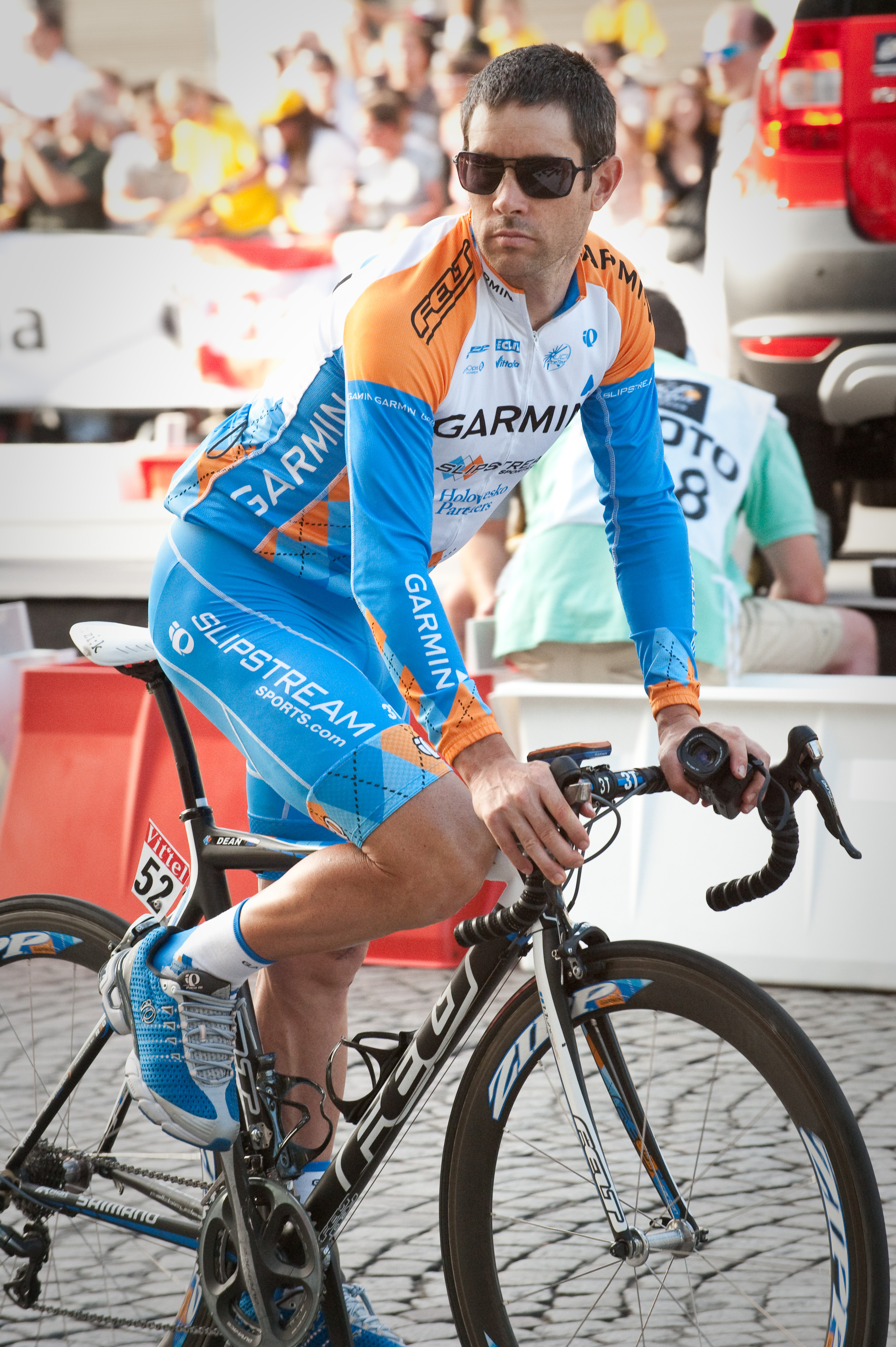 Tour de France 2009 - Parade Lap